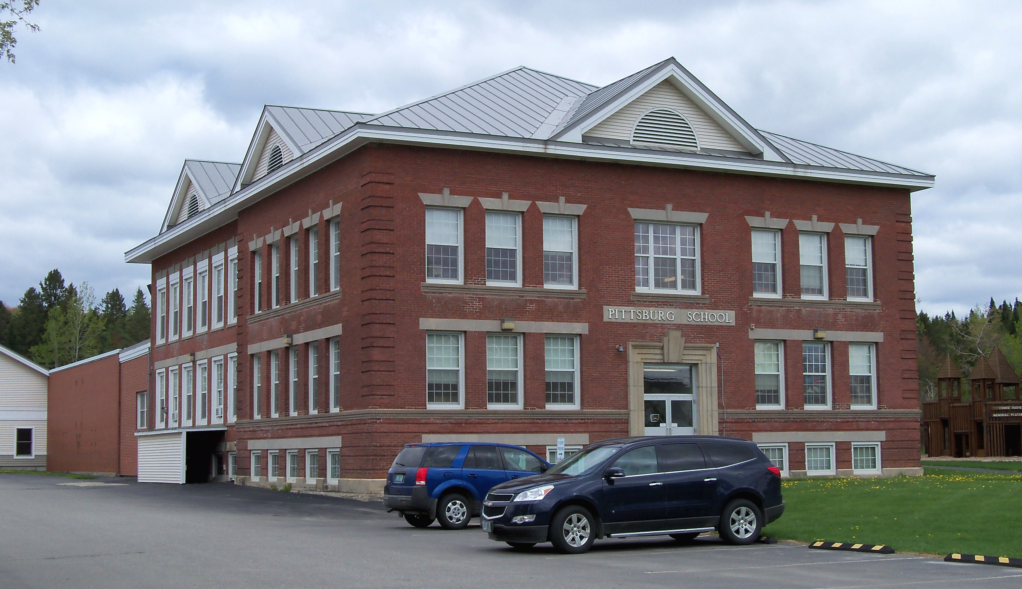 School in Pittsburg, New Hampshire, USA.